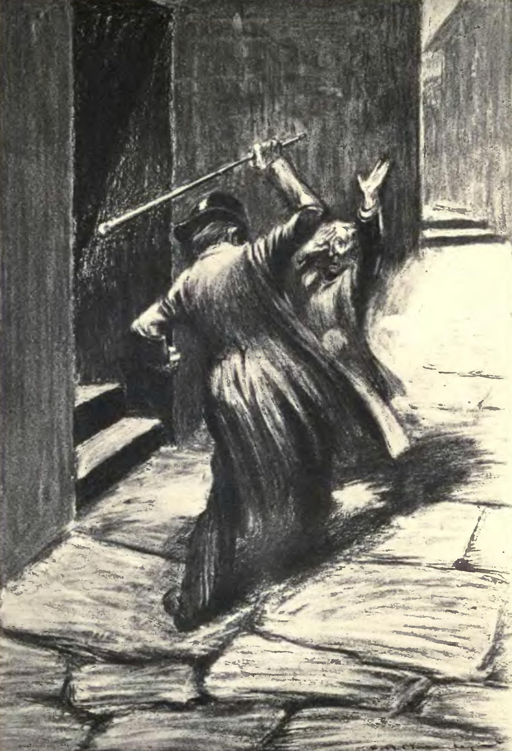 Artwork by Charles Raymond Macauley for the 1904 edition of The strange case of Dr. Jekyll and Mr. Hyde by Robert Louis Stevenson. Publisher: New York Scott-Thaw